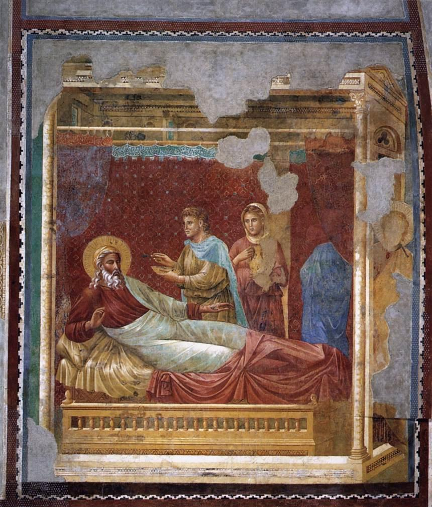 Scenes from the Old Testament